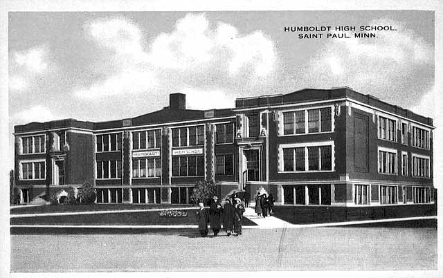 Image from a postcard of Humboldt High School in 1920. This is the second building to hold the school.